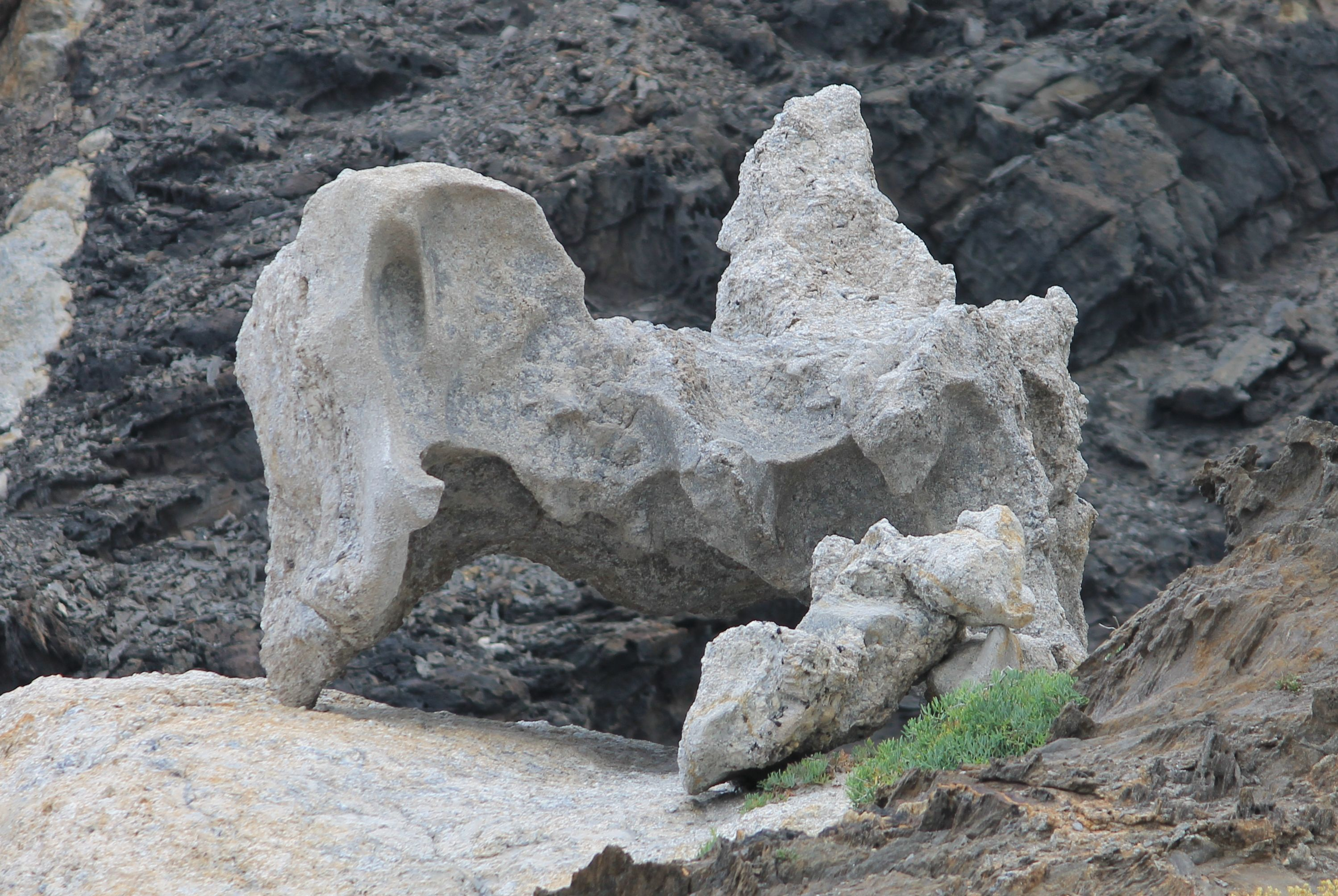 El gran masturbador (The Great Masturbator), rock formation in the natural parc Cap de Creus mentioned bu D. Dali